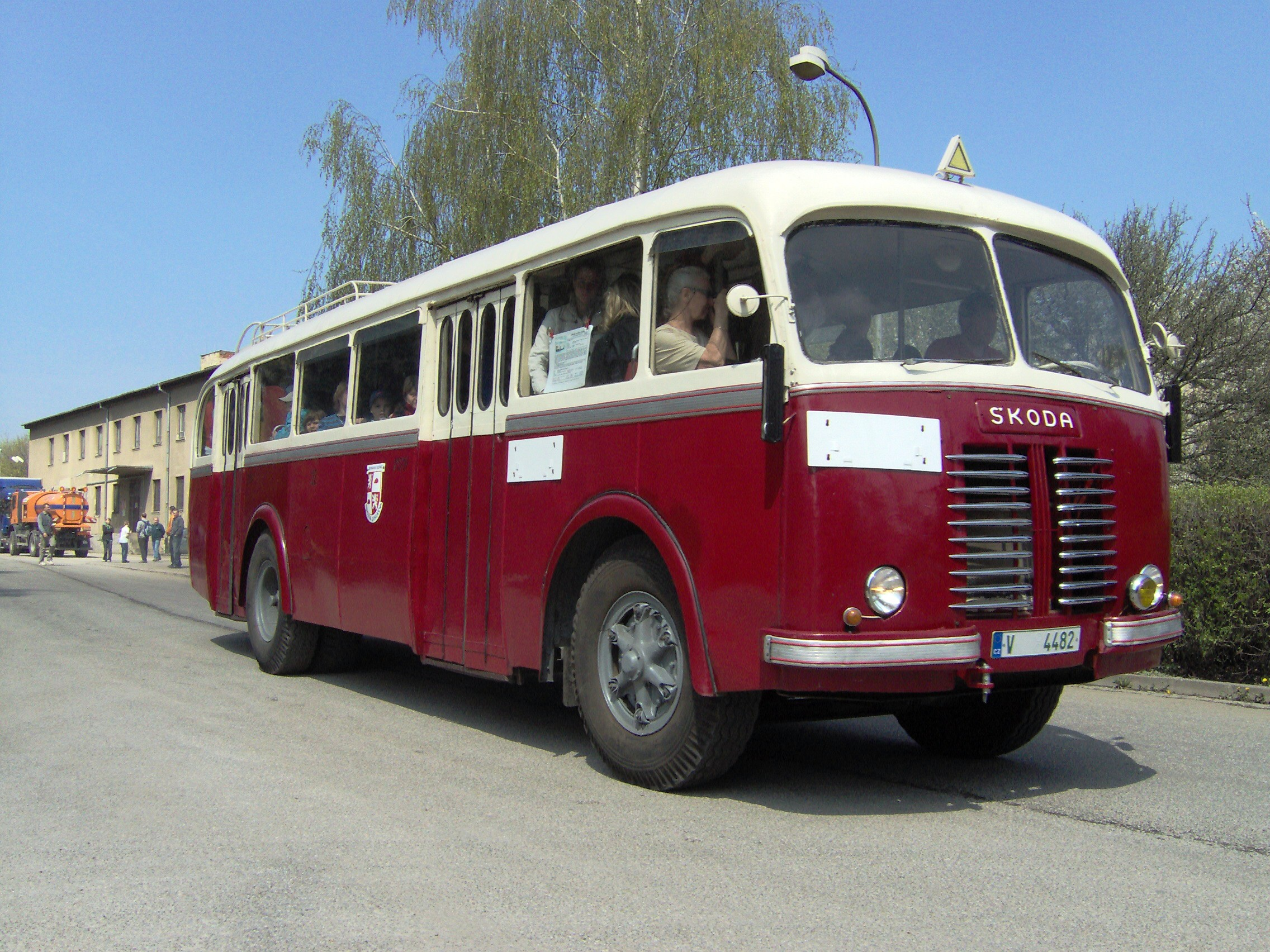 Historical bus Karosa Škoda 706 RO in Brno, Czech Republic